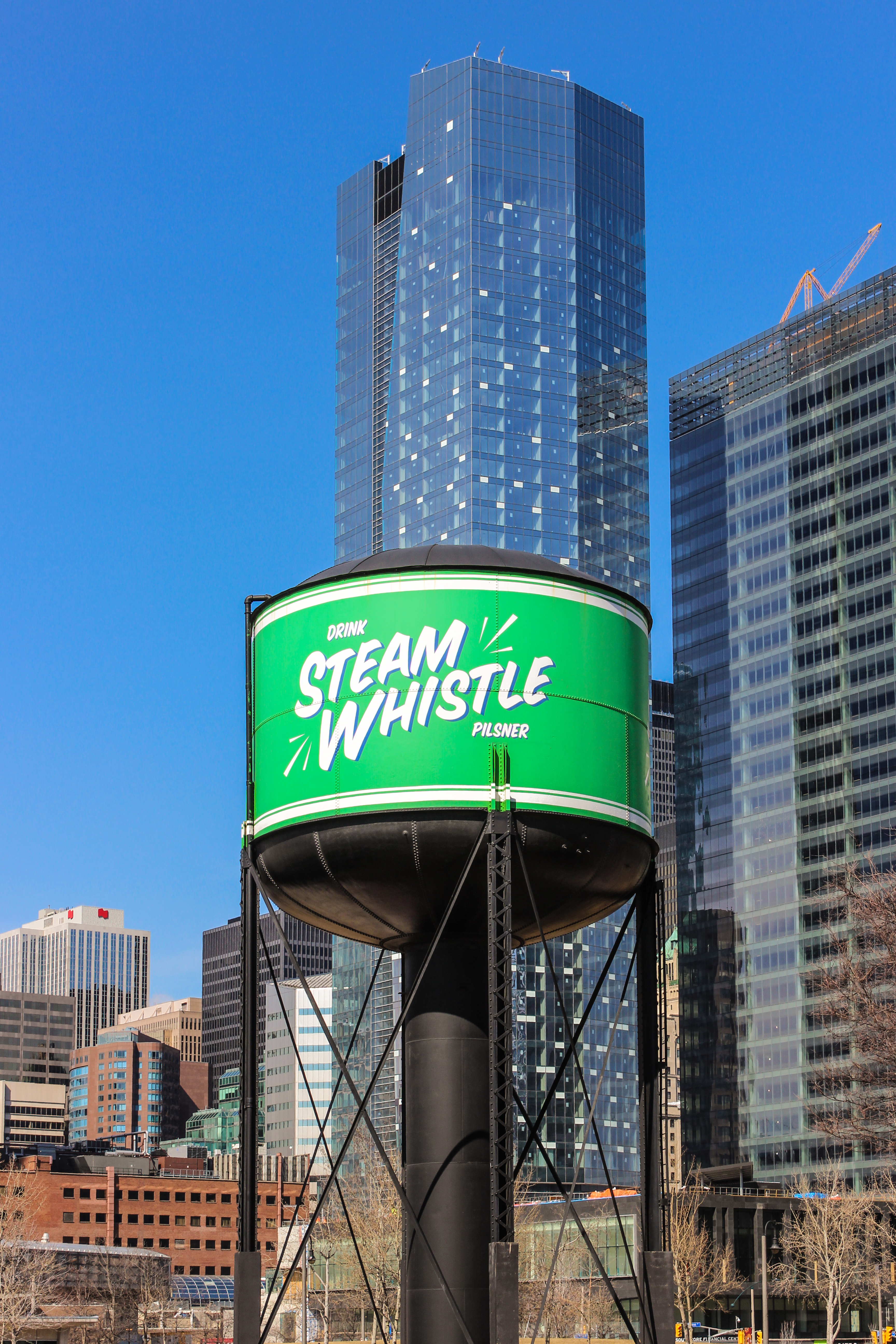 Water tower at the Steam Whistle brewery in Toronto